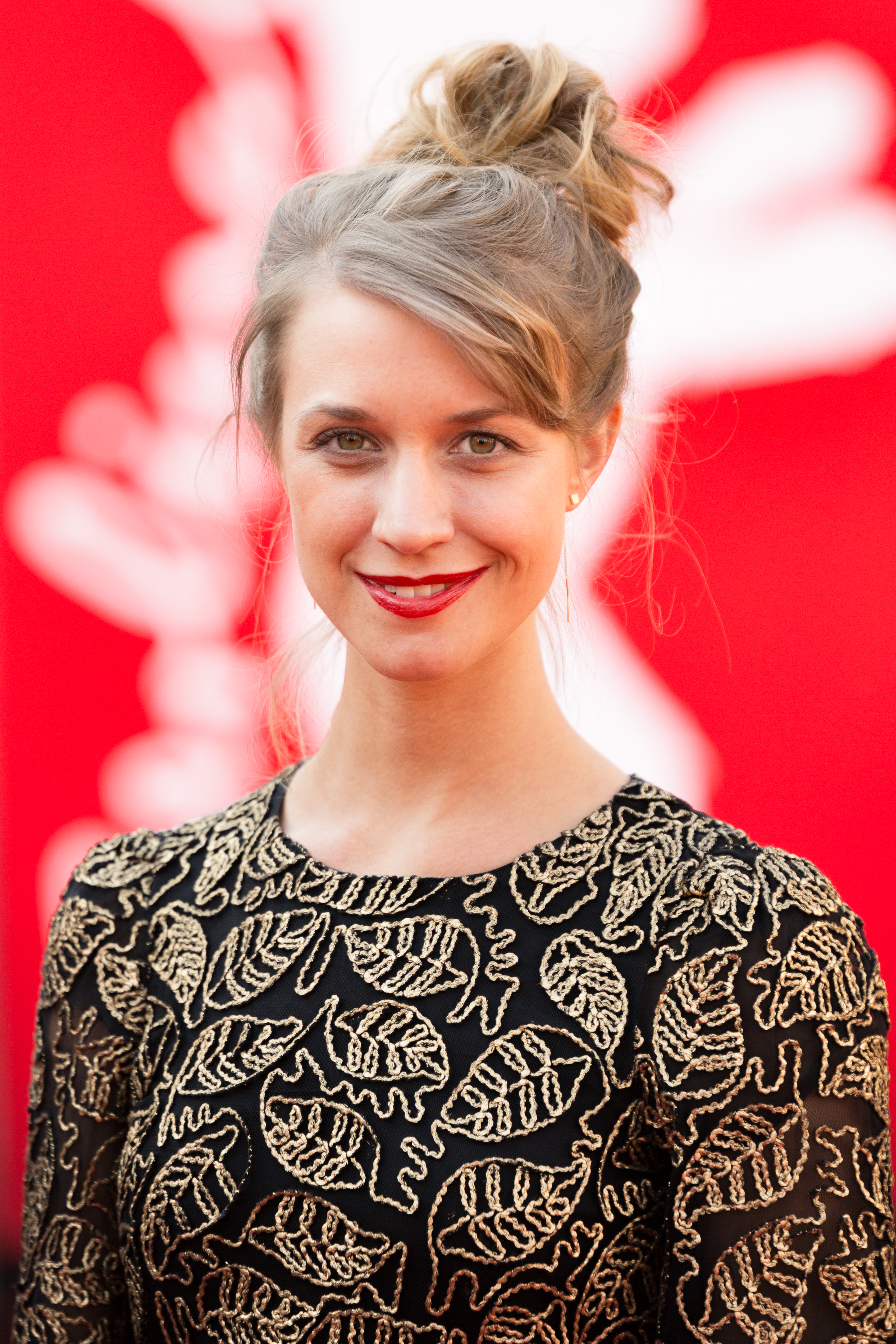 The actress Sara Hjort Ditlevsen of danish series Gidseltagningen (Below the Surface) at the Berlinale 2017